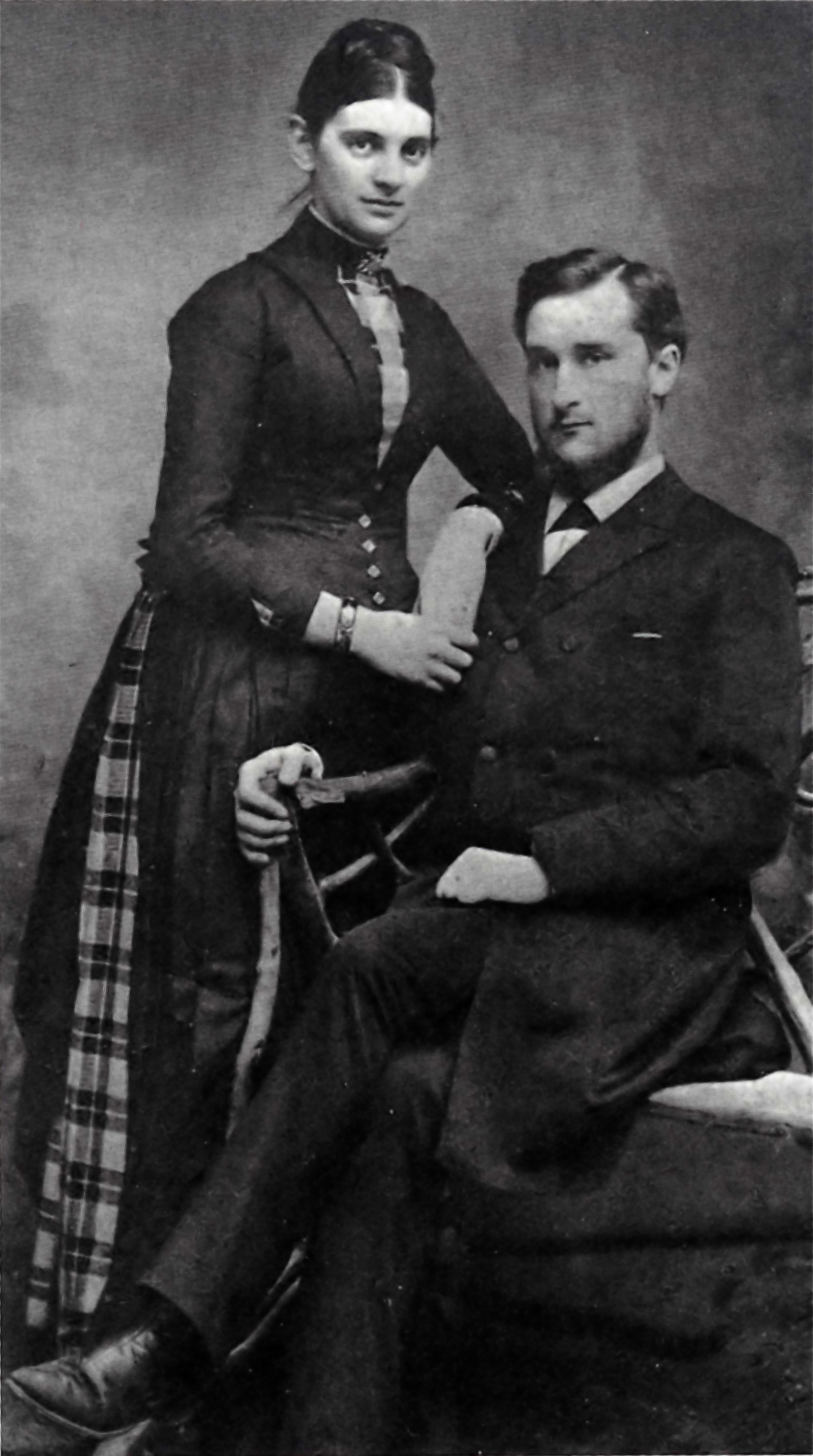 Dutch anthropologist Eugene Dubois and his wife Anna Lojenga in 1887, just before they made their voyage to the Dutch East Indies